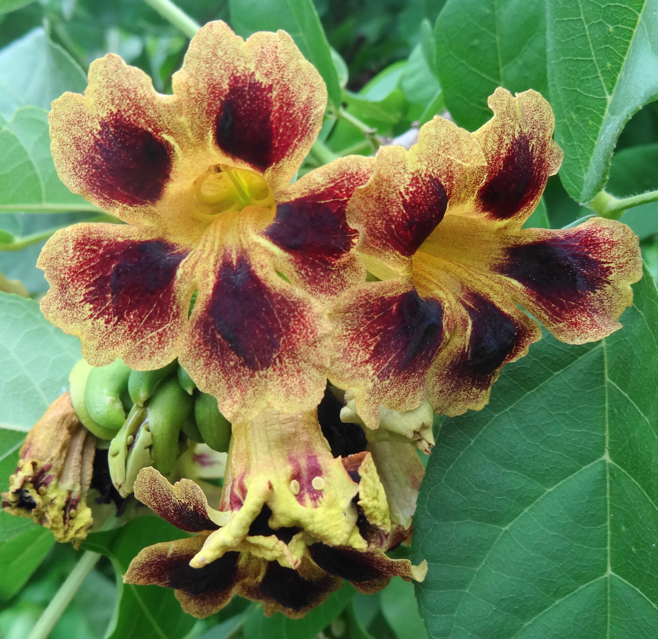 Close to Pemba town, northern Mozambique, on Pemba Bay. A lot of variation in flower colour and flower colour pattern.